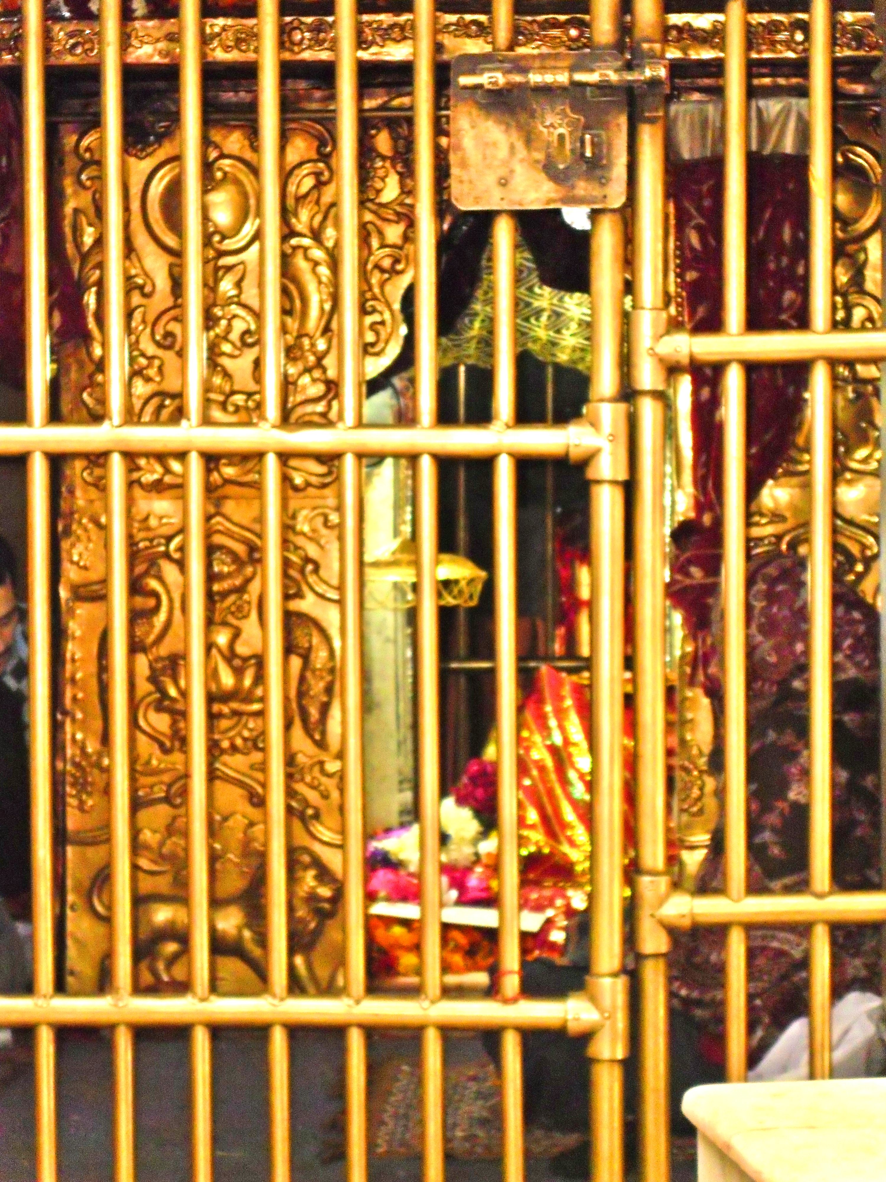 Chintpurni Devi view from back gate